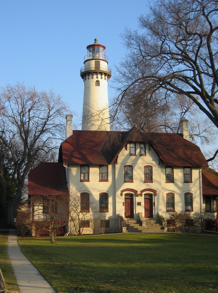 Grosse Point Lighthouse. Lake Michigan, Evanston, Illinois.